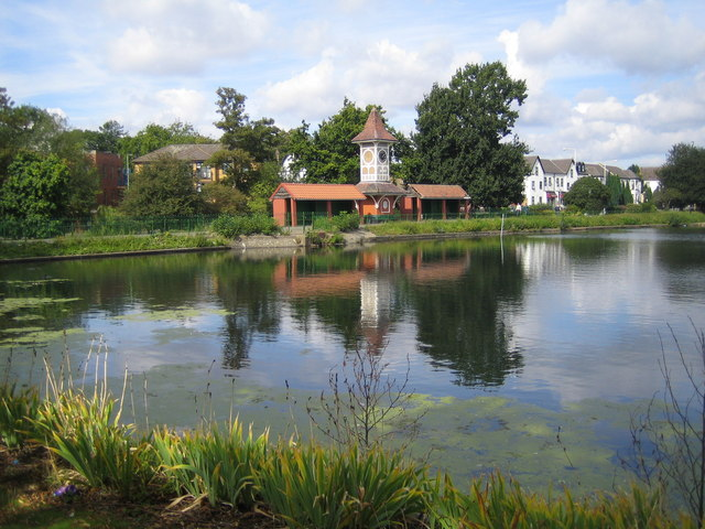 Cranbrook: Valentines Park clock tower This view was taken looking across the boating lake in Valentines Park towards the clock tower, which was built in 1899 on the opening of the park. A plaque on the clock tower commemorates that it was presented by W. P. Griggs Esq. At its opening the park was known as Cranbrook Park, as witnessed by the plaque, but the name was changed in 1907 to register its association with the nearby Valentines Mansion.